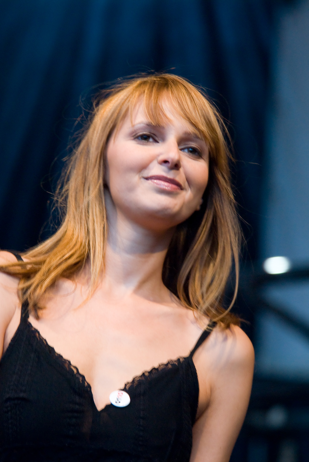 Isabelle Adam, 0110 concert on 1 November 2006 in Gent, Belgium